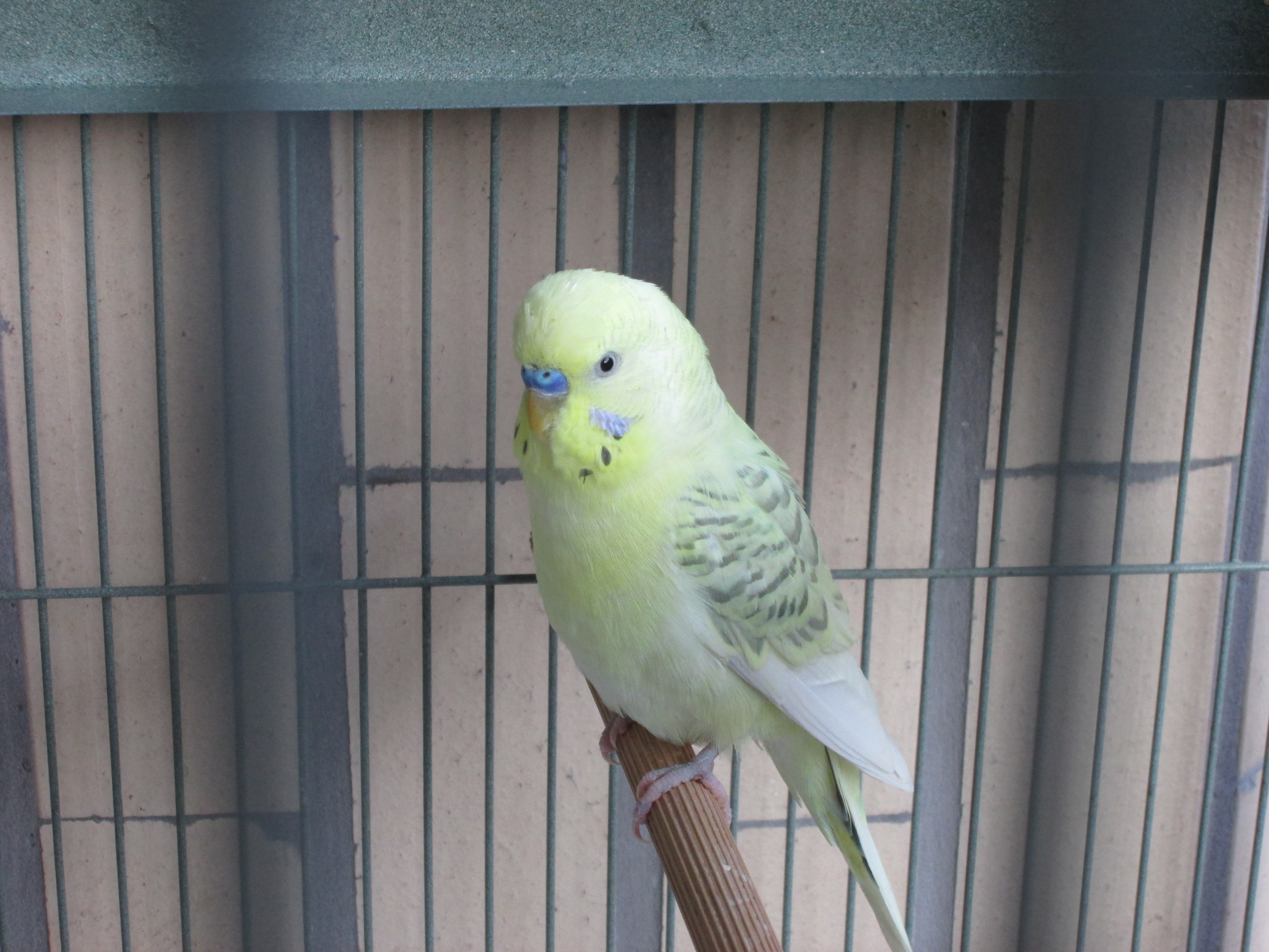 A male of Budgerigar (Italy)